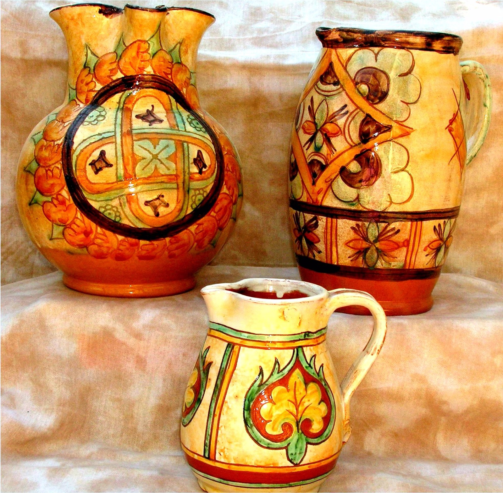 Jugs of wine to Ingrestarie